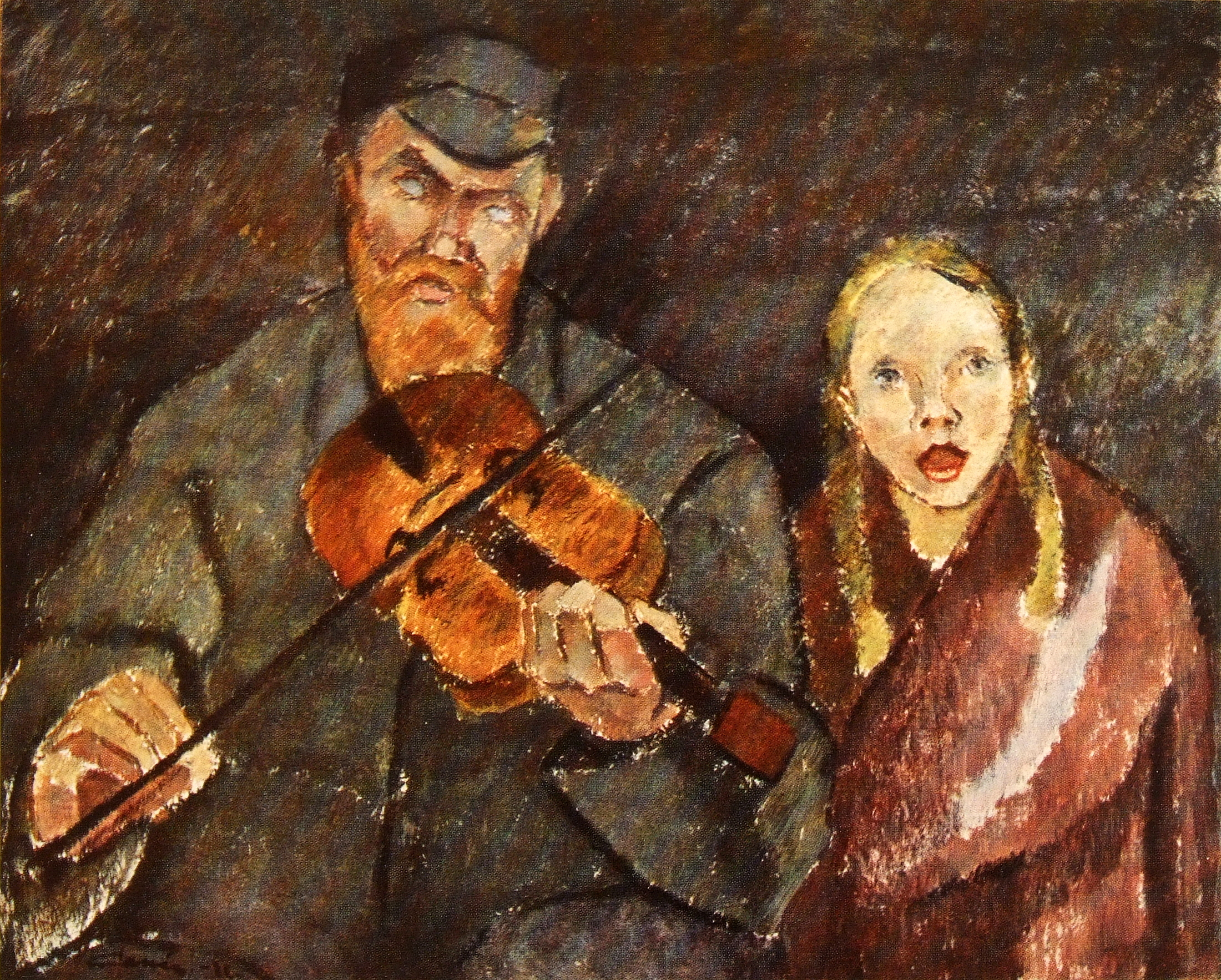 Sokea soittoniekka (Blind musician) by Alvar Cawén (1922).